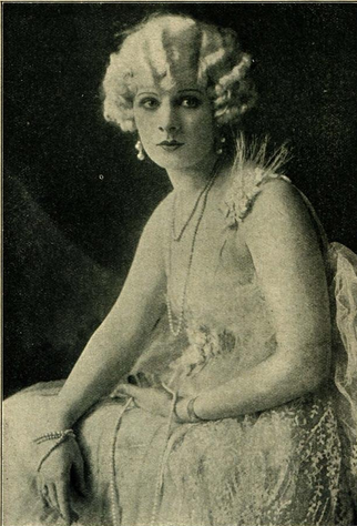 Margaret Irving, from a 1923 publication